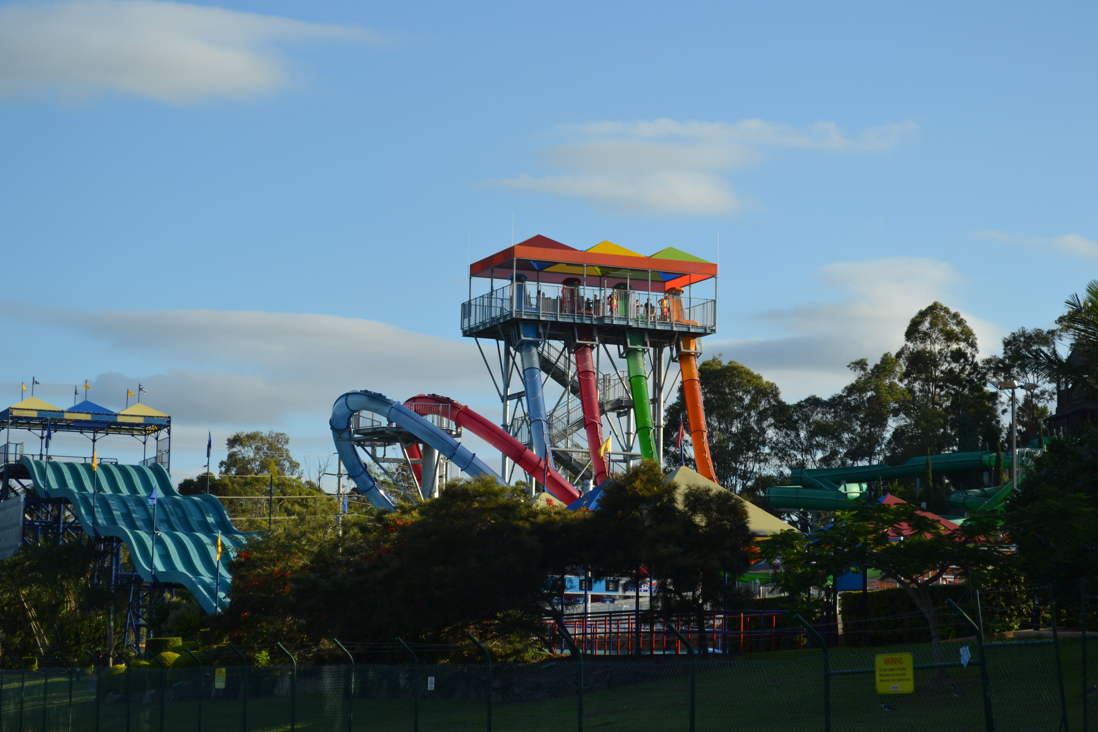 View of the AquaLoop, Super 8 Aqua Racer and River Rapids from the car park of Wet'n'Wild Water World.